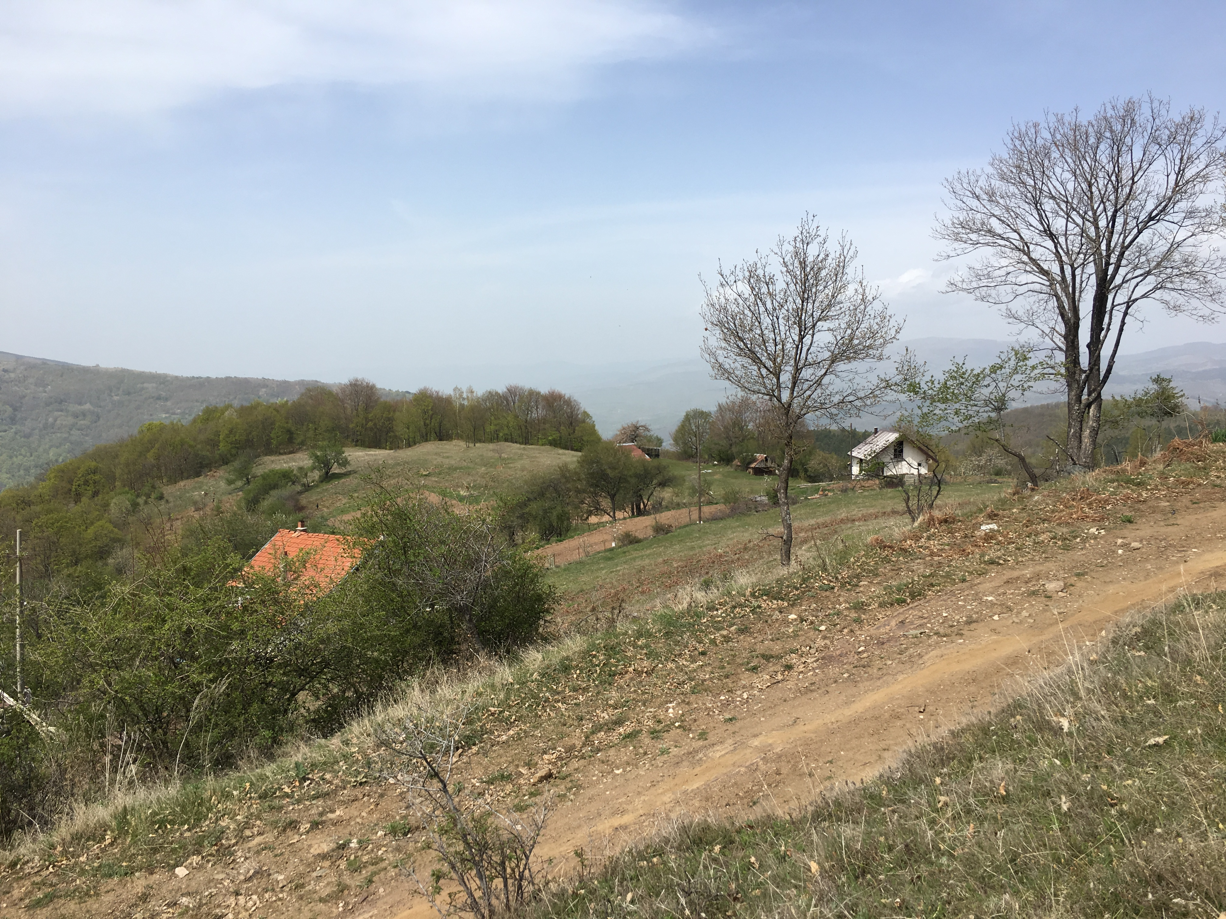 Houses in the village of B's